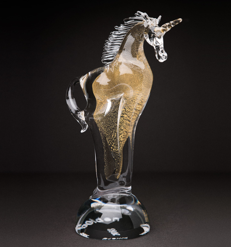 The picture of the Golden Unicorn Award